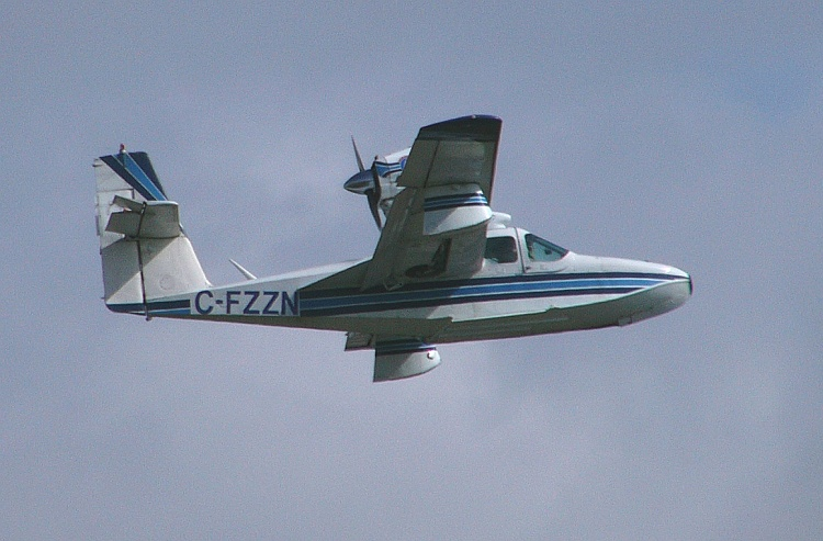 I took this photo of Lake LA-4-200 Buccaneer C-FZZN at Cornwall, Ontario on 21 May 2005.